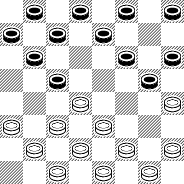 Opening "Igra Medkova" (Игра Медкова) in russian checkers